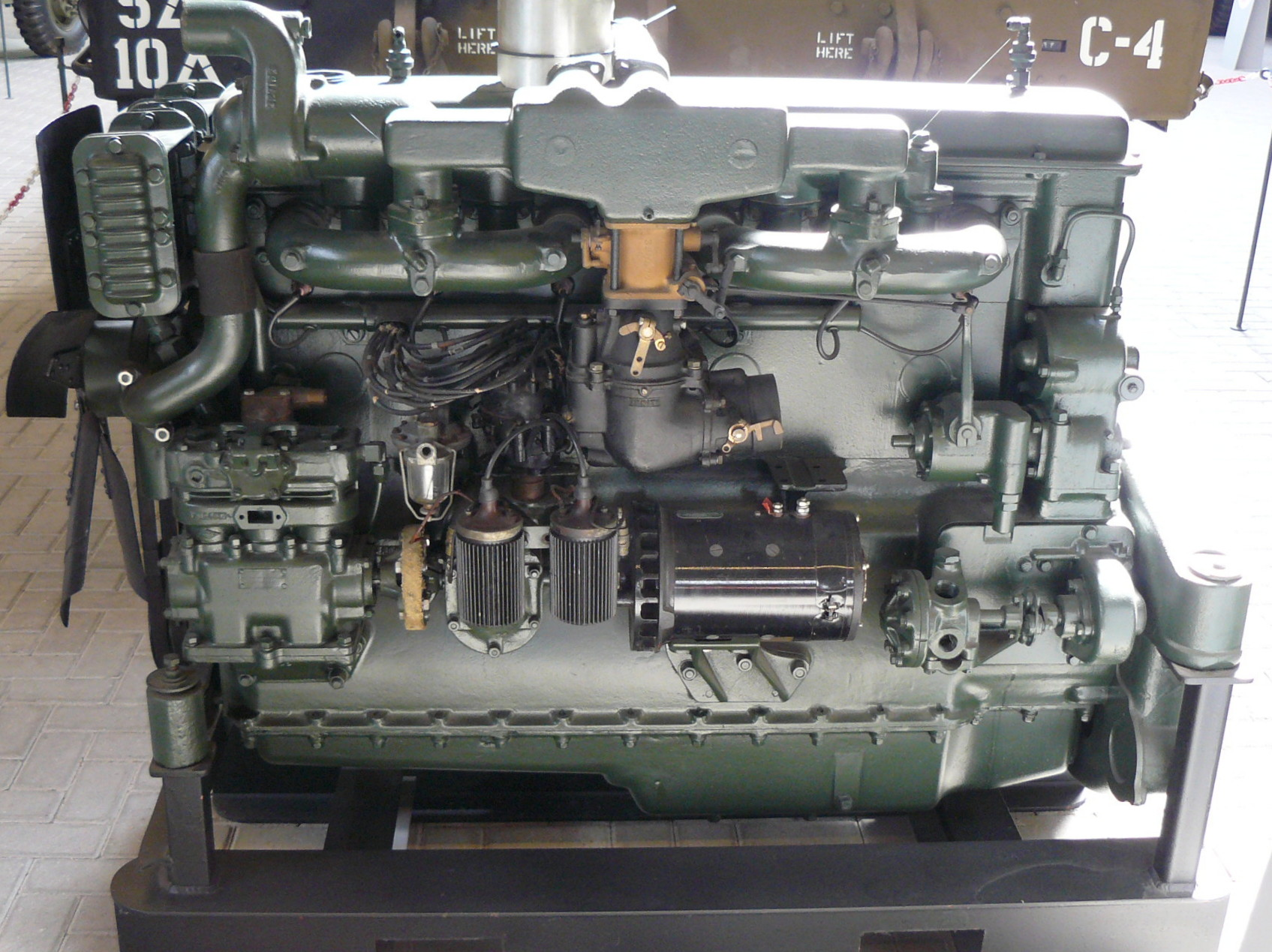 Hall Scott 440 petrol engine for the Pacific M26 tanktransporter. Six cilinders in line, 18,167 cc. Engine output: 240 hp at 2000 rpm.